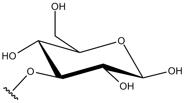 author=kupirijo